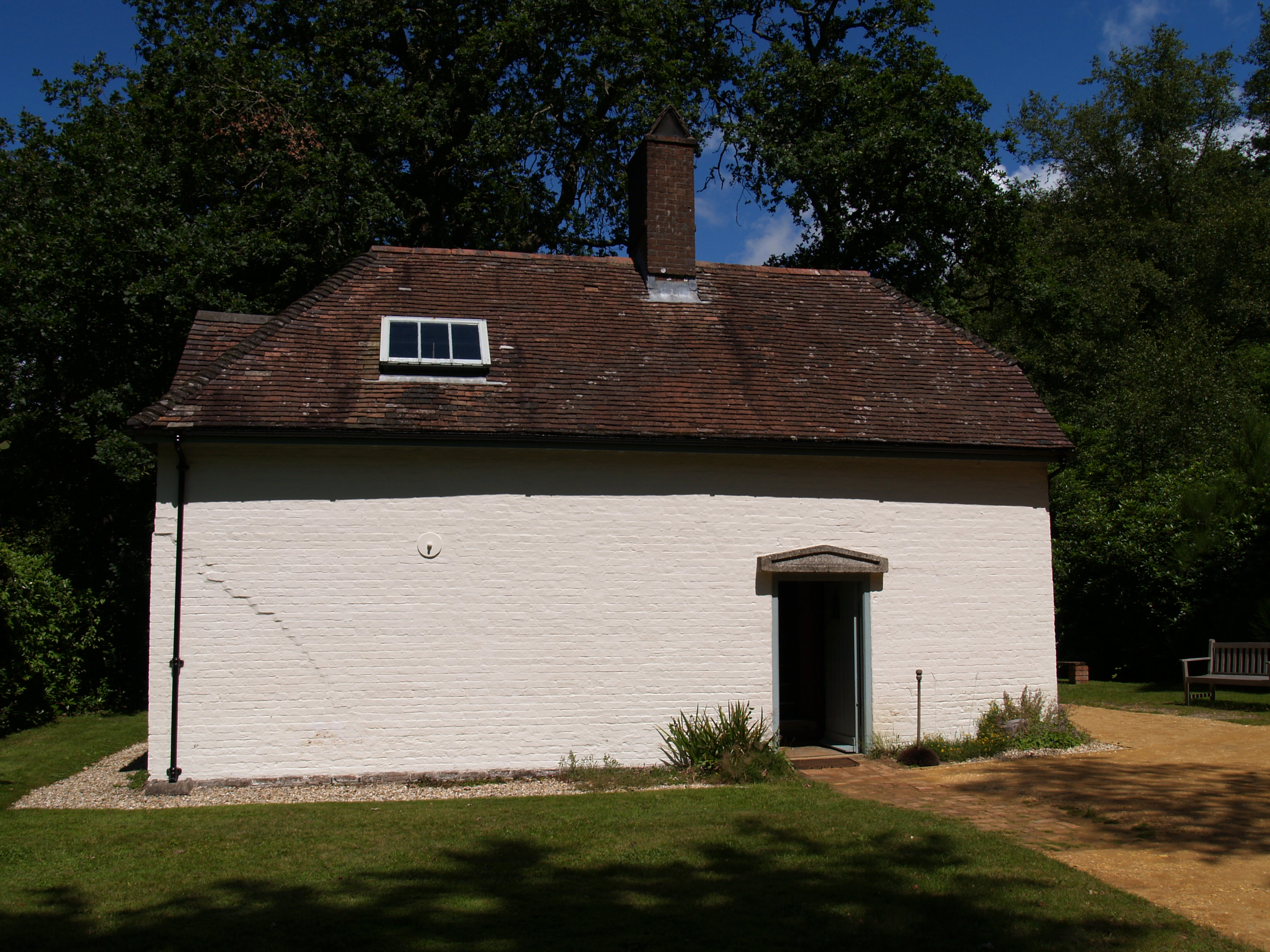 Own Work. Clouds Hill Dorset 2007